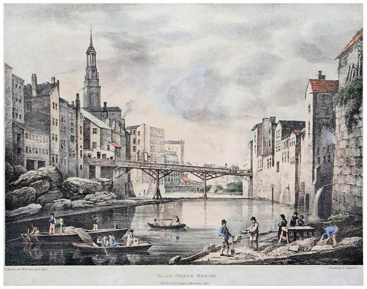 The first Blackfriars' Bridge in Manchester, crossing the River Irwell. Manchester is on the left, Salford on the right.